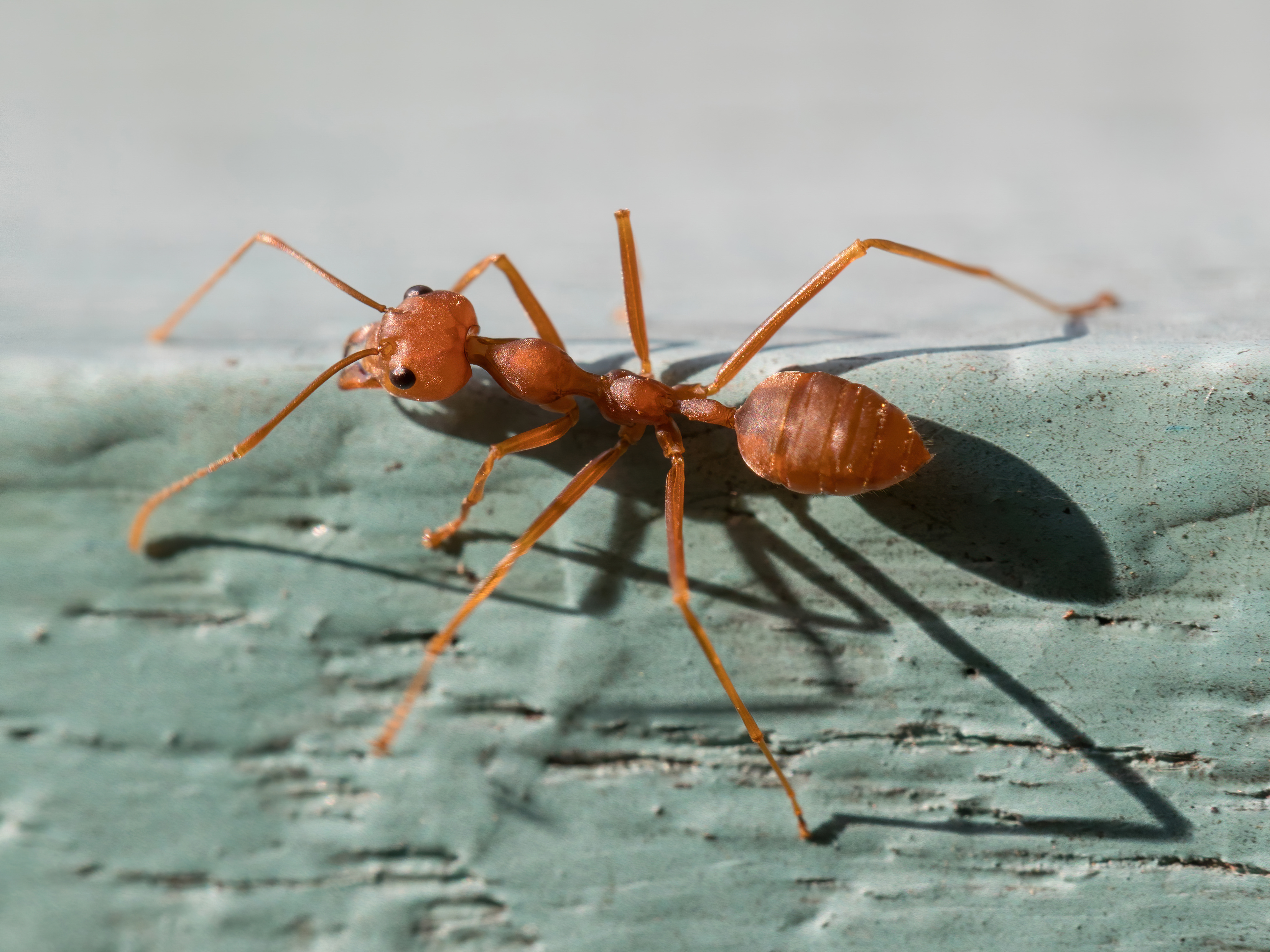 Close-up photographs of Oecophylla smaragdina (Red weaver ant), in Laos